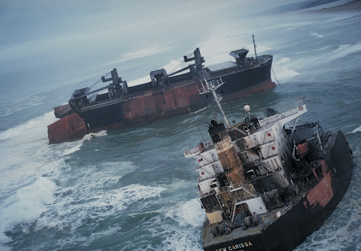 M/V New Carissa On February 4, 1999, the M/V New Carissa, a 639-foot bulk freight ship of Panamanian registry, went hard aground in heavy seas about 150 yards off a stretch of remote, undeveloped sandy beach three miles north of Coos Bay, Ore. The ship was intentionally ignited to burn the fuel oil and later broke in two.